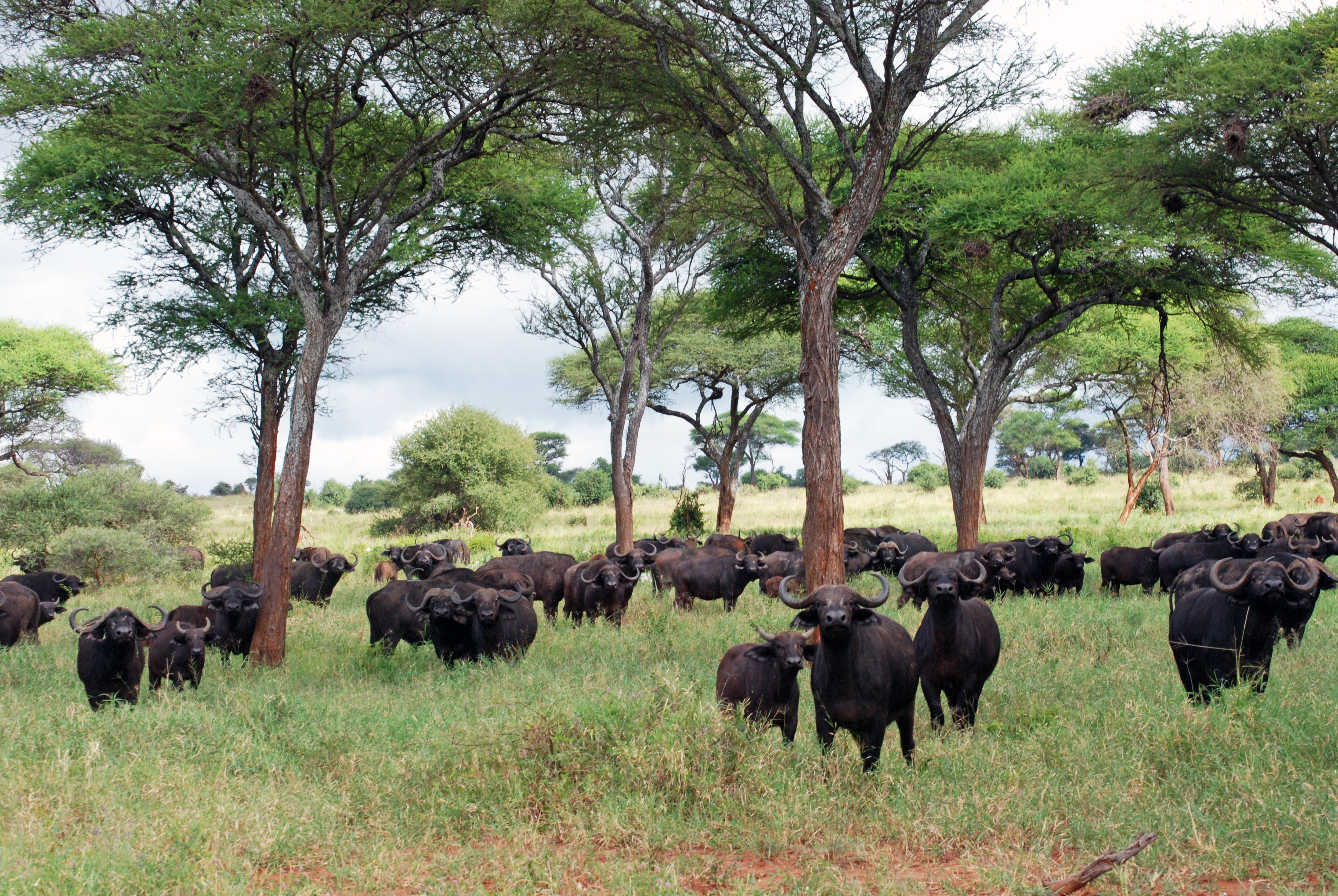 A herd of African buffalo, affalo, nyati, Mbogo or Cape buffalo (Syncerus caffer), a large African bovine.